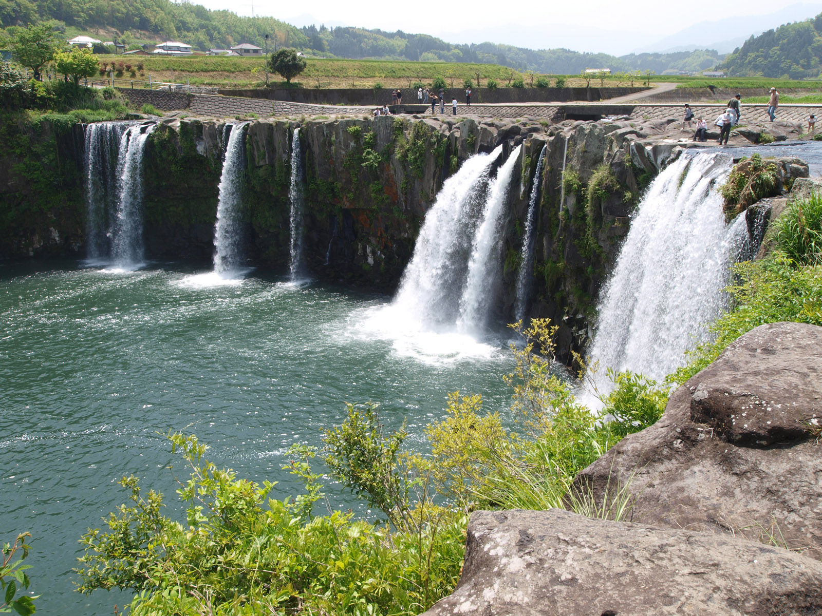 Harajiri Fall, Ogata Town, Bungo Ono City, Oita Prefecture